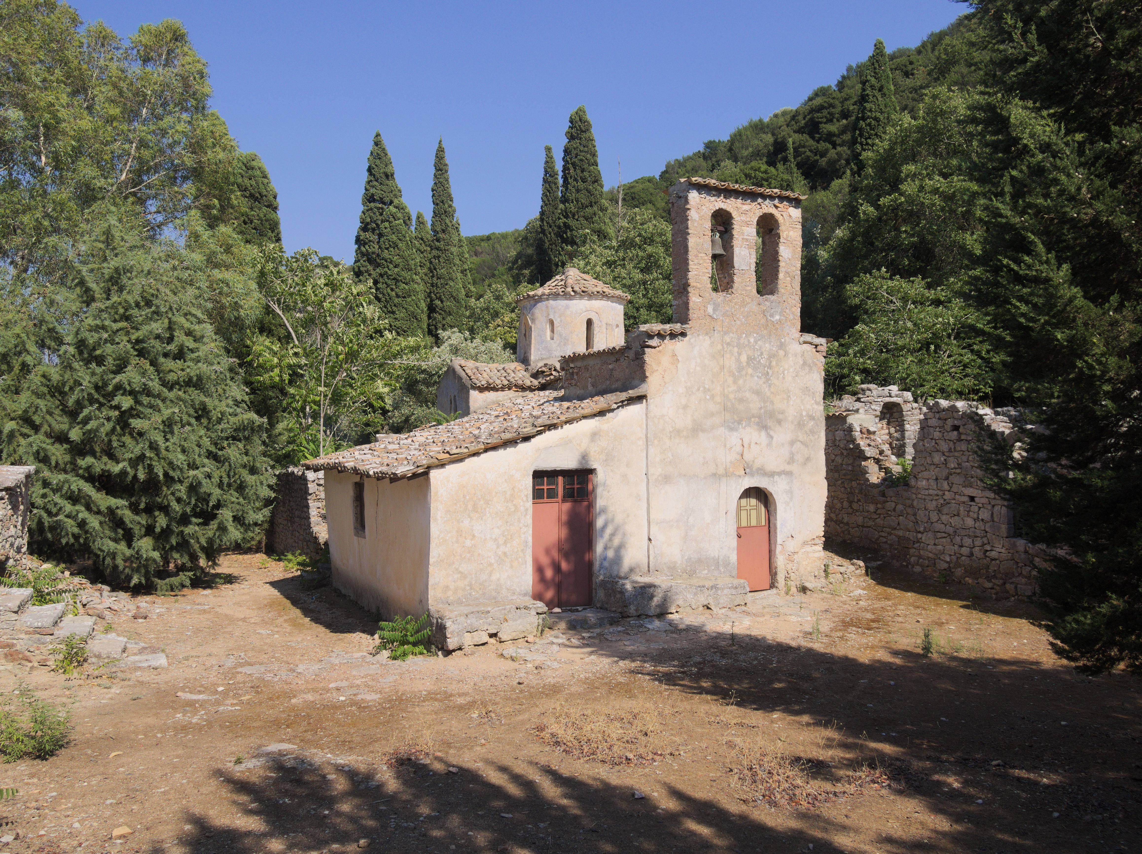 The monastery of Saint Theodori located near Chomatero, Koroni.